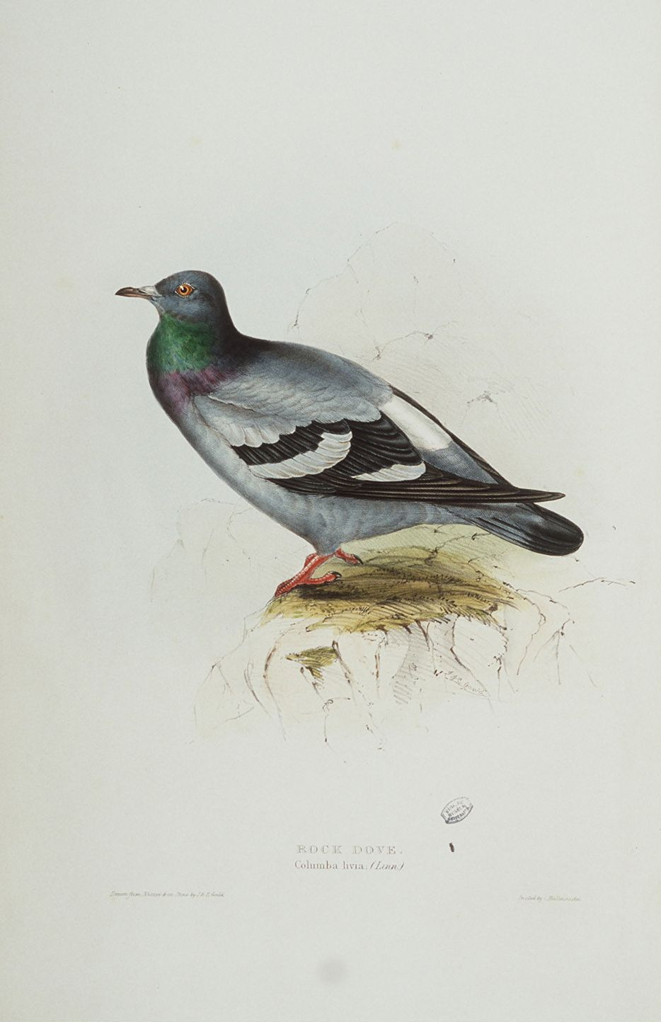 Illustration of Columba livia Linn., (Rock Dove). Drawn from Nature and on Stone by John and Elizabeth Gould.